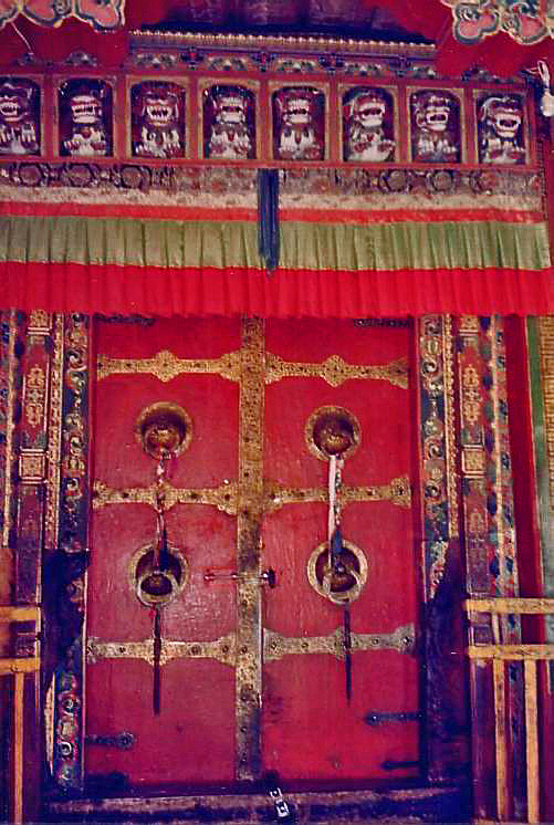 I took this photo in 1993. John Hill 03:25, 29 January 2007 (UTC)